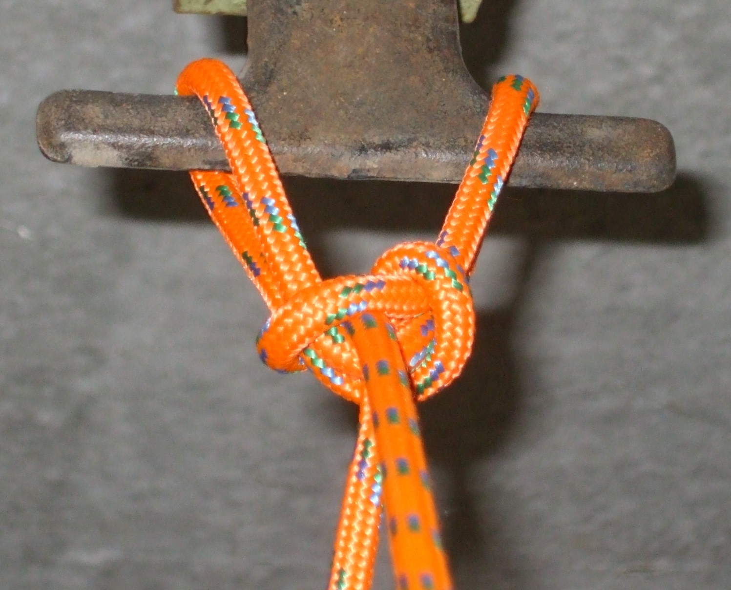 with hook